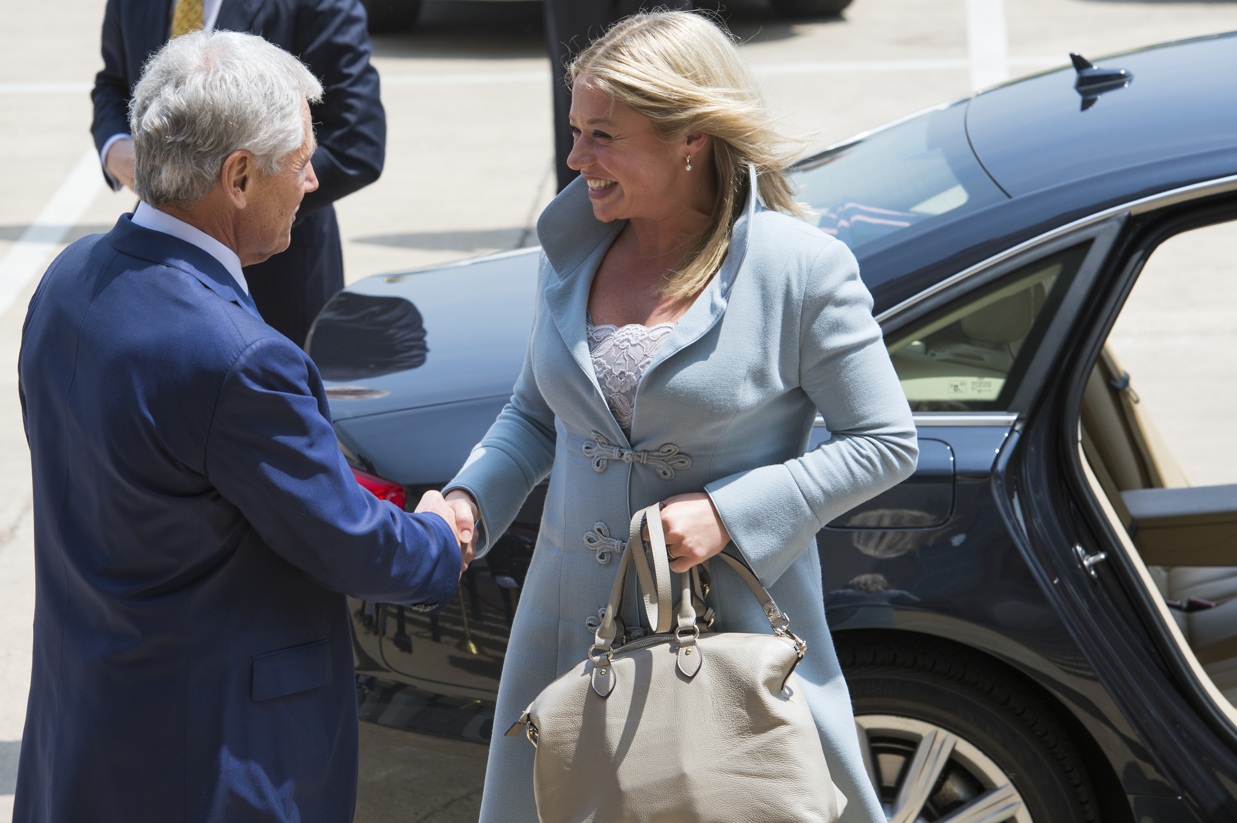 Secretary of Defense Chuck Hagel hosted an honor cordon to welcome Dutch Minister of Defense Jeanine Hennis-Plasschaert at the Pentagon May 22, 2013. DoD photo by Sgt. Aaron Hostutler, U.S. Marine Corps. (Released)